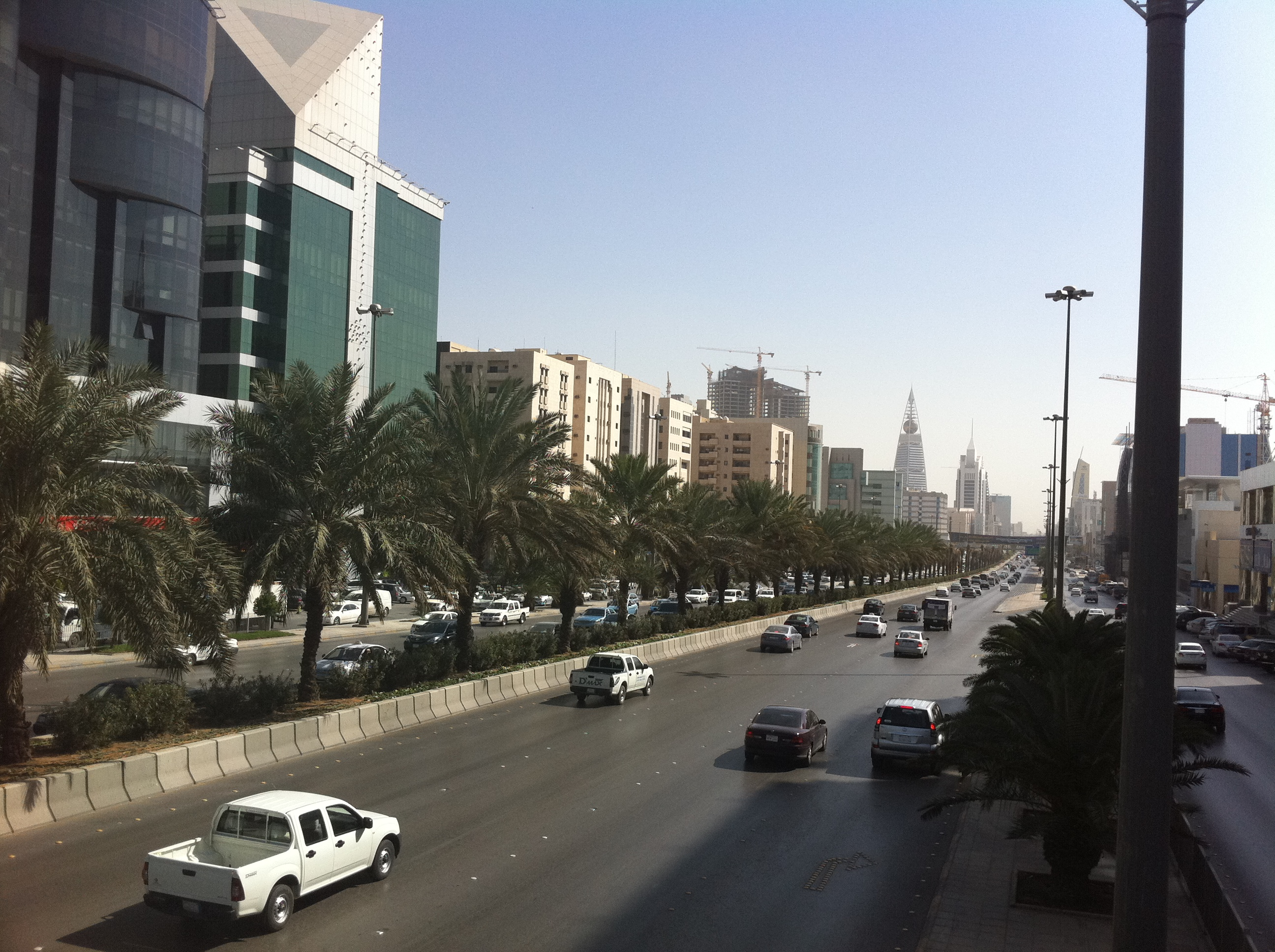 King Fahd Road Riyadh north to south